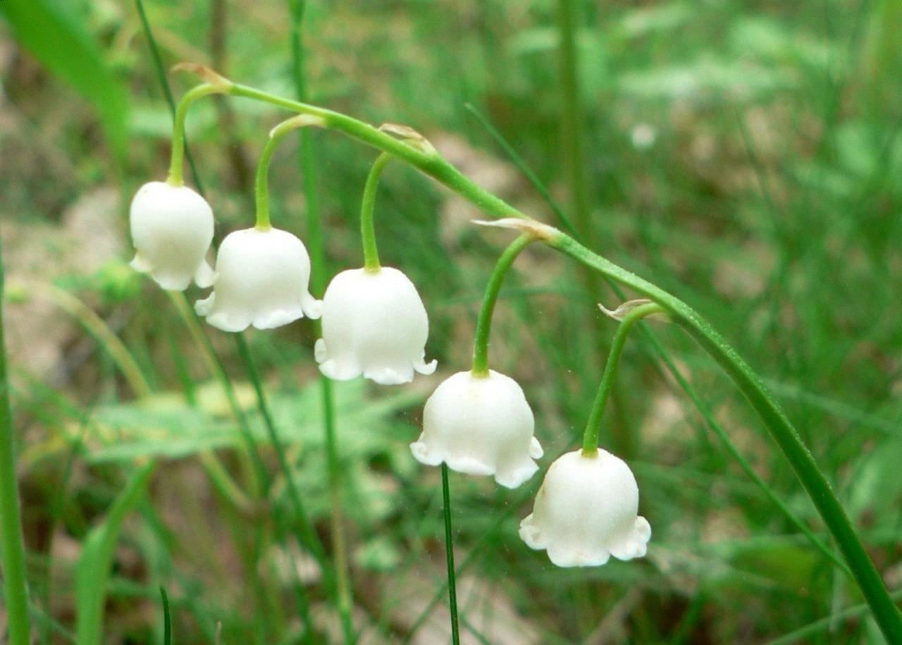 Image title: Lily flowers Image from Public domain images website